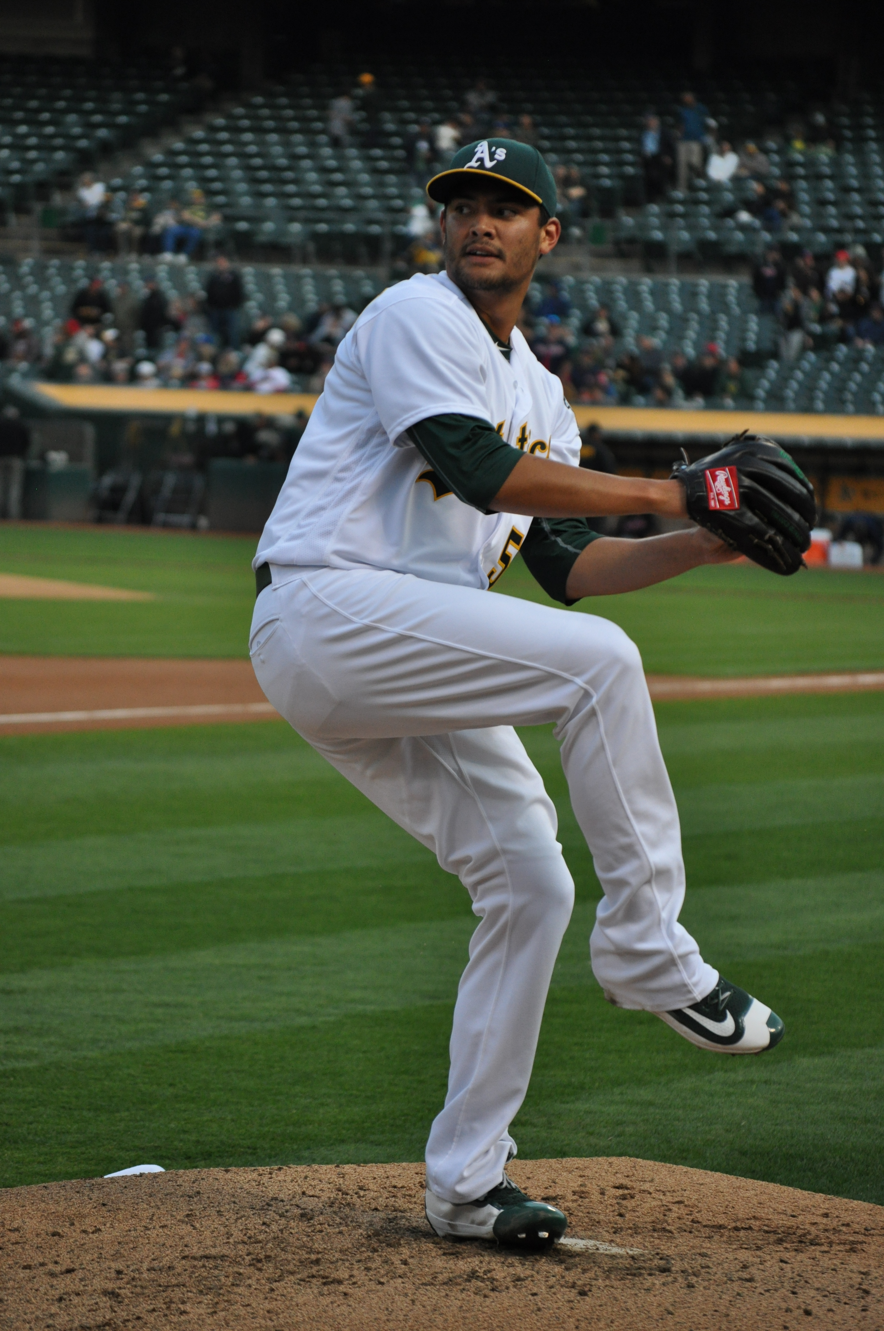 Manaea warms up before his 8-23-16 start against the Indians.